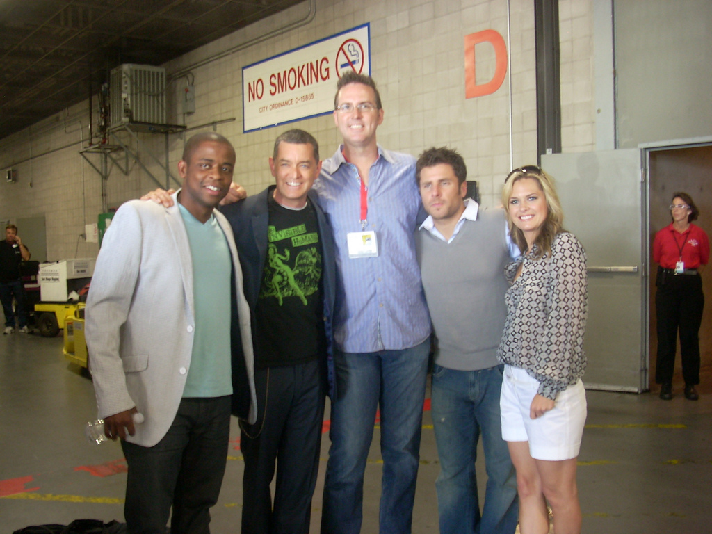 Dulé Hill, Timothy Omundson, Steve Franks, James Roday and Maggie Lawson at the 2009 San Diego Comic-Con, backstage at the Psych panel.